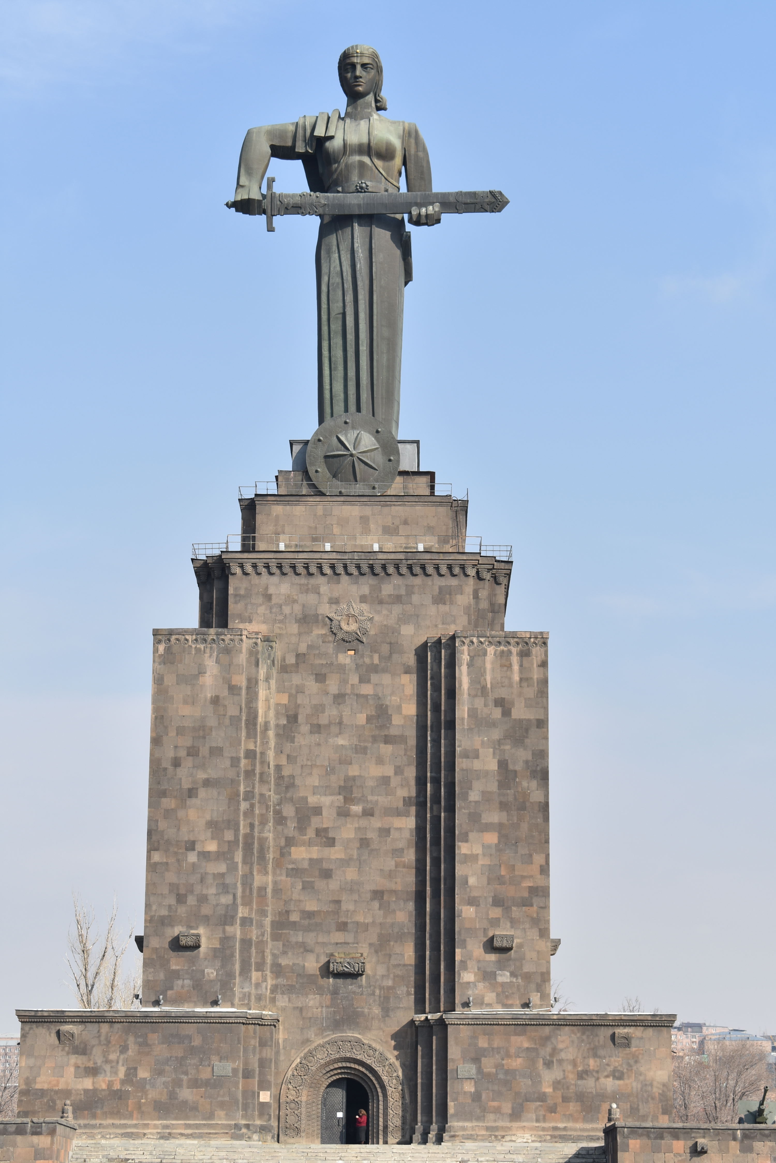 Mother Armenia